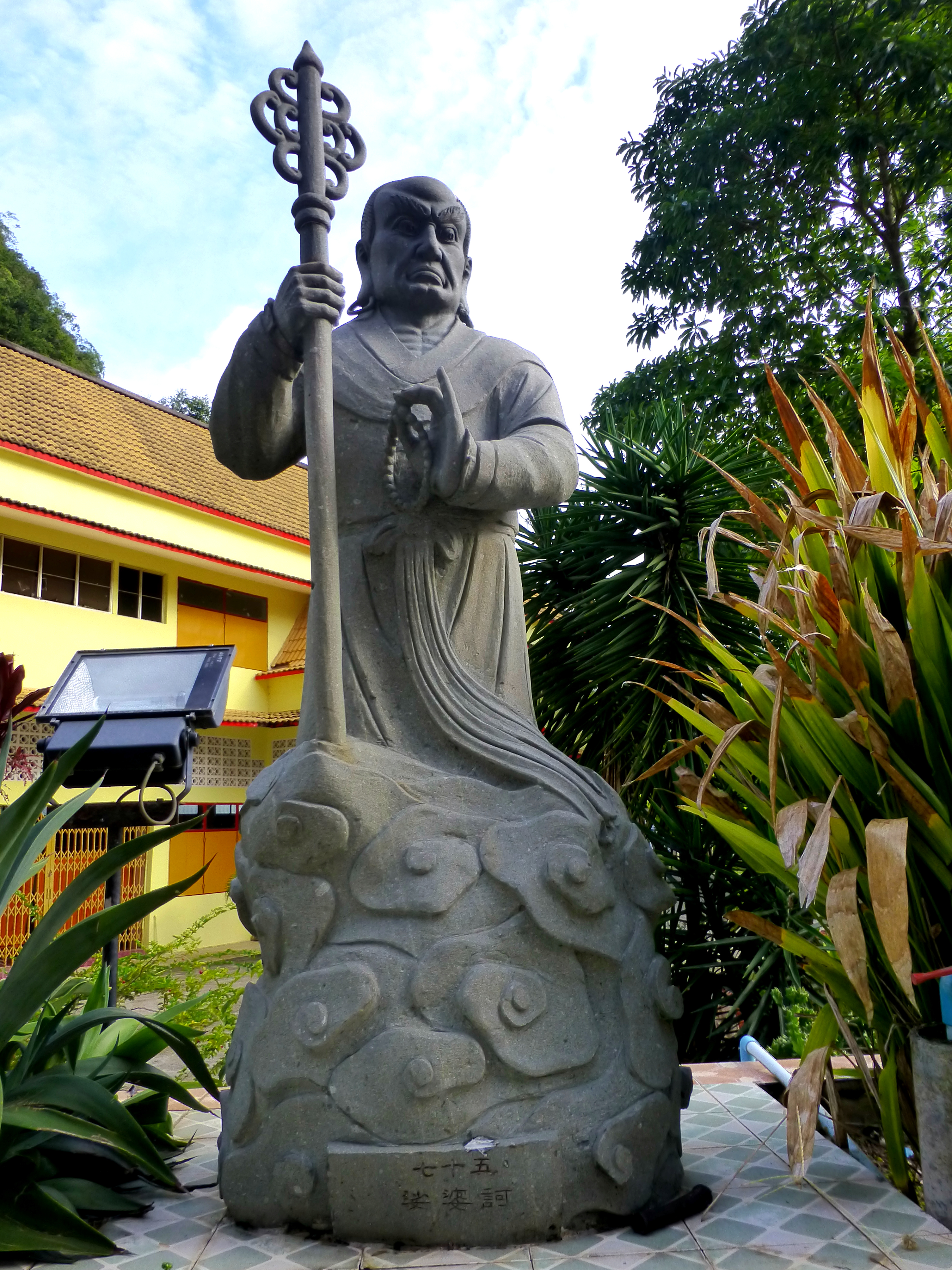 75 sa po he, Wat Khao Rup Chang, Songkhla, Thailand Photograph from Wat Tham Khao Rup Chang in Songkhla Province, Thailand taken by Anandajoti.